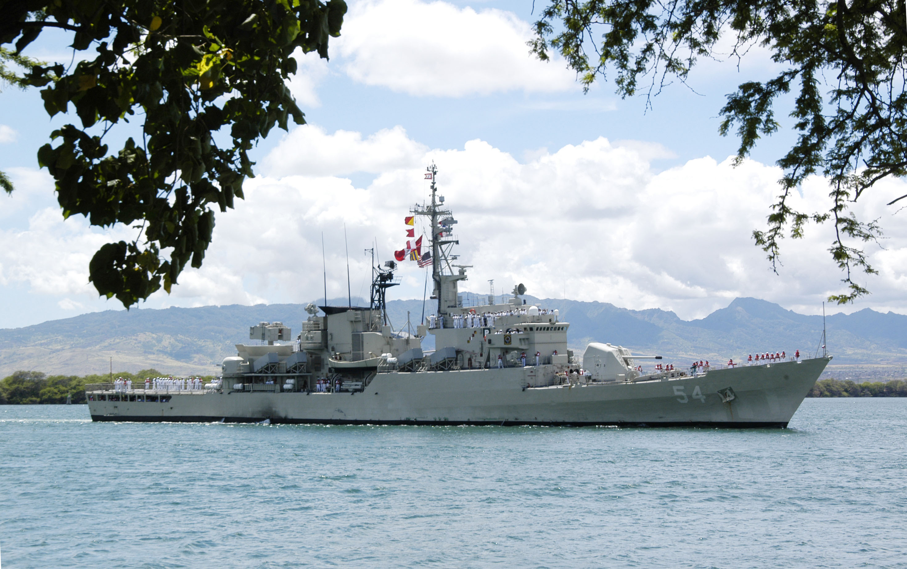 Pearl Harbor, Hawaii (June 23, 2006) - The Peruvian Navy ship BAP Mariatagui (FM 54) pulls into Pearl harbor for a scheduled port call before starting Rim of the Pacific (RIMPAC) 2006. Eight nations are participating in RIMPAC, the world's largest biennial maritime exercise. Conducted in the waters off Hawaii, RIMPAC brings together military forces from Australia, Canada, Chile, Peru, Japan, the Republic of Korea, the United Kingdom and the United States. U.S. Navy photo by Photographer's Mate 2nd Class Jason Swink (REALEASED)